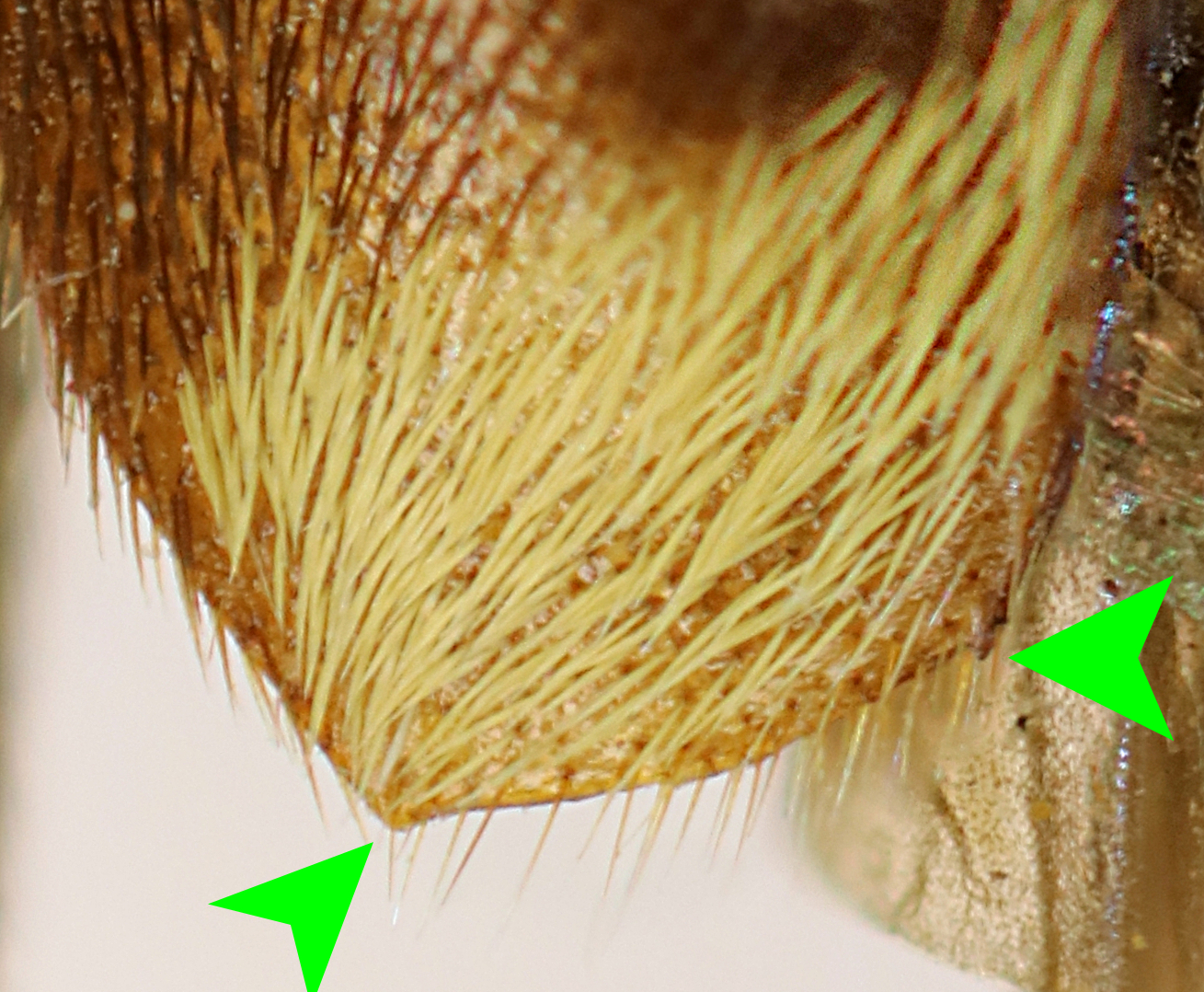 Apex of left elytron of Xylotrechus arvicola